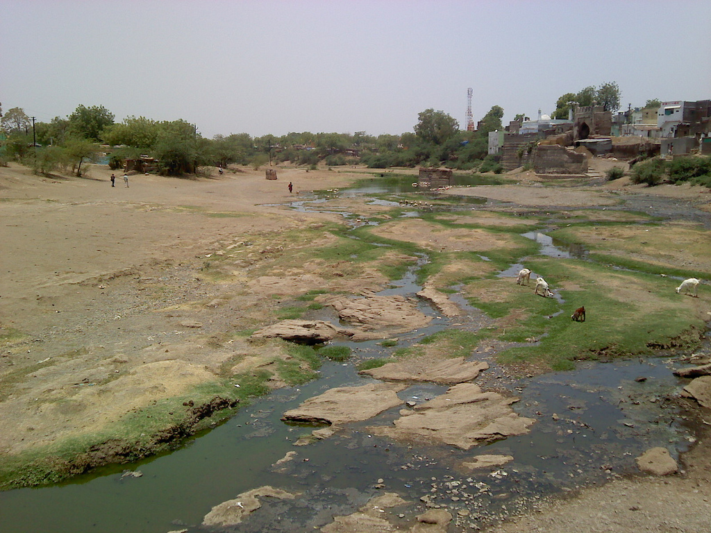 River Dnyanganga at Nandura. Note the isolated tiny streams or ponds. Picture taken in summer. The river flows only in the months of rain.